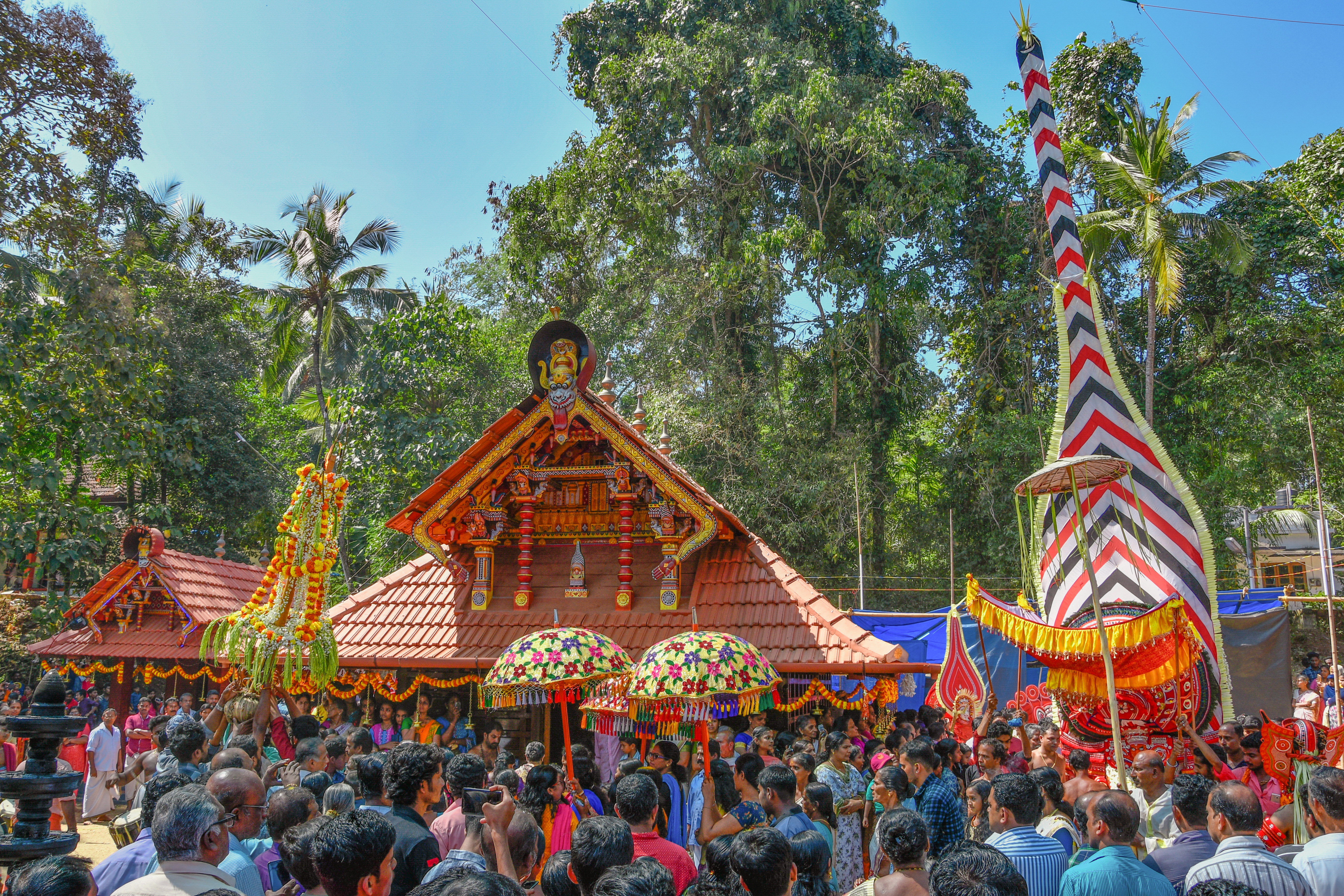 A Hindu temple in North Kerala